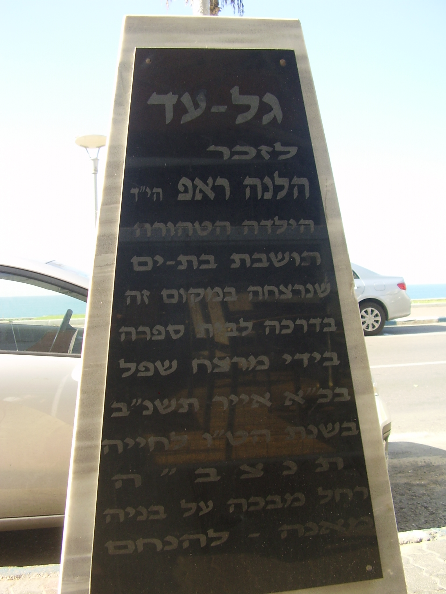 helena rapp memorial in bat yam. she was killed by an arab terrorist in 24/5/1992 אנדרטה להלנה ראפ במקום הירצחה בידי מחבל ערבי ב-24/5/1992